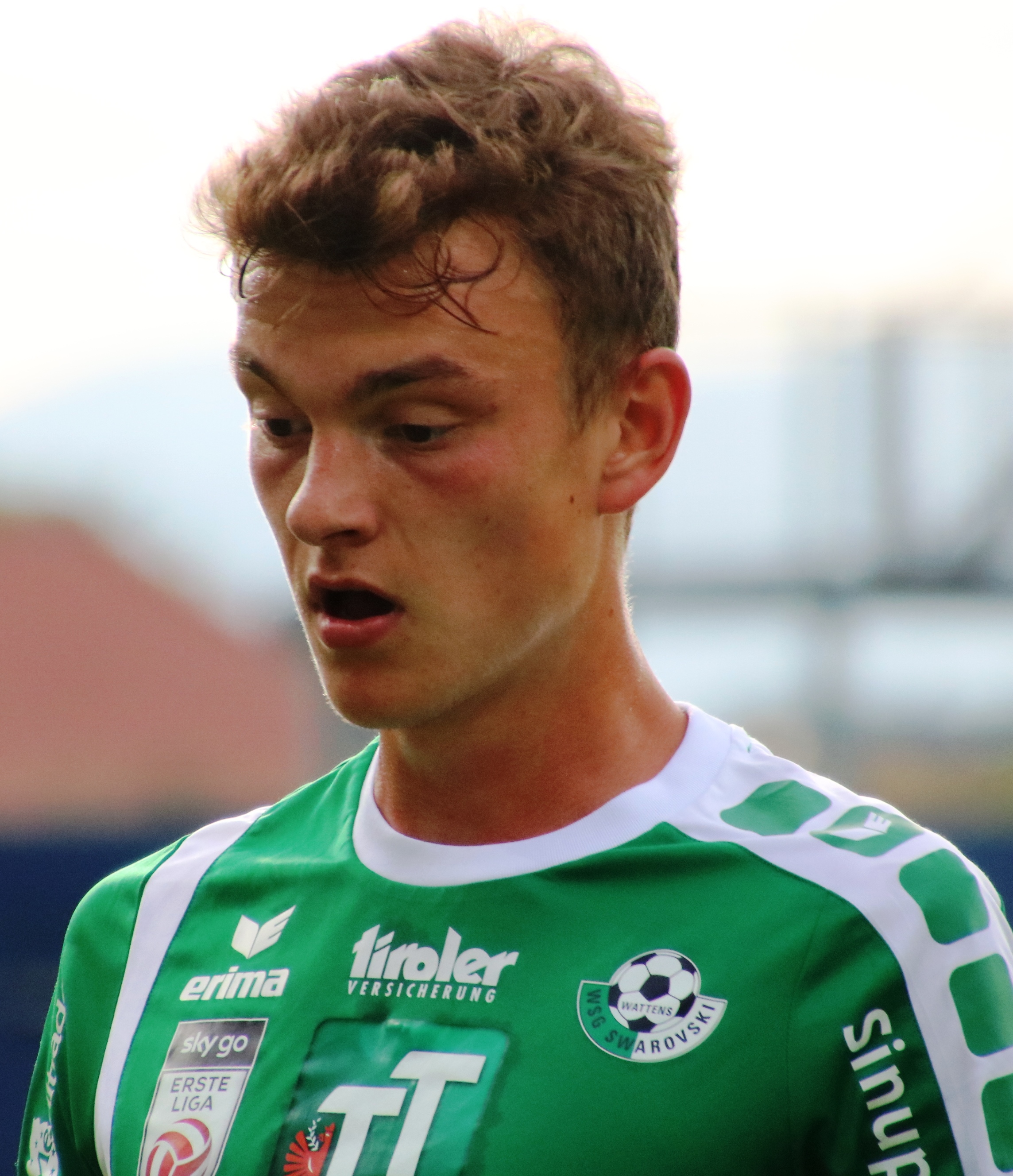 League match Austria 2nd league